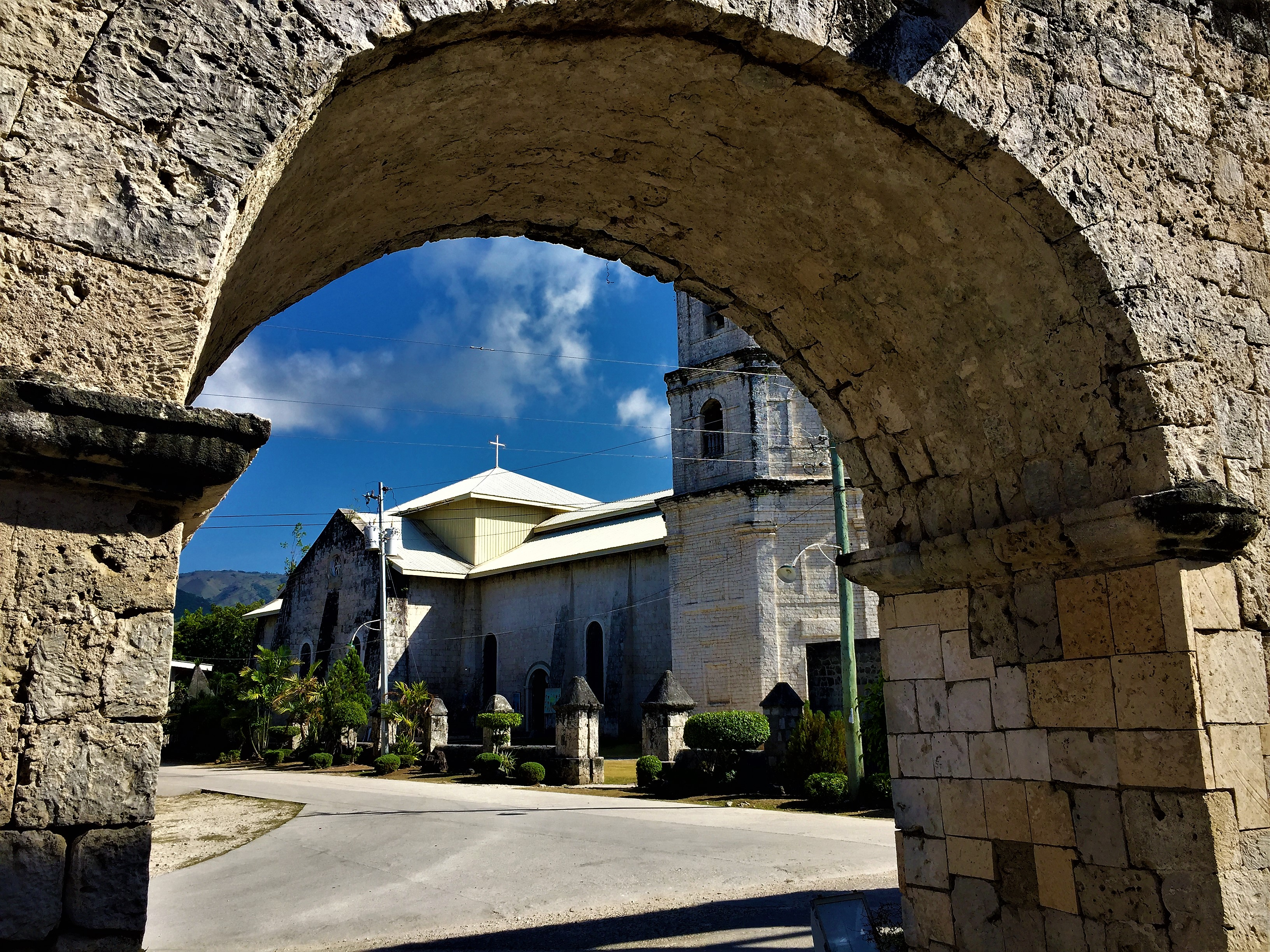 View of Oslob Church from the Spanish Cuartel